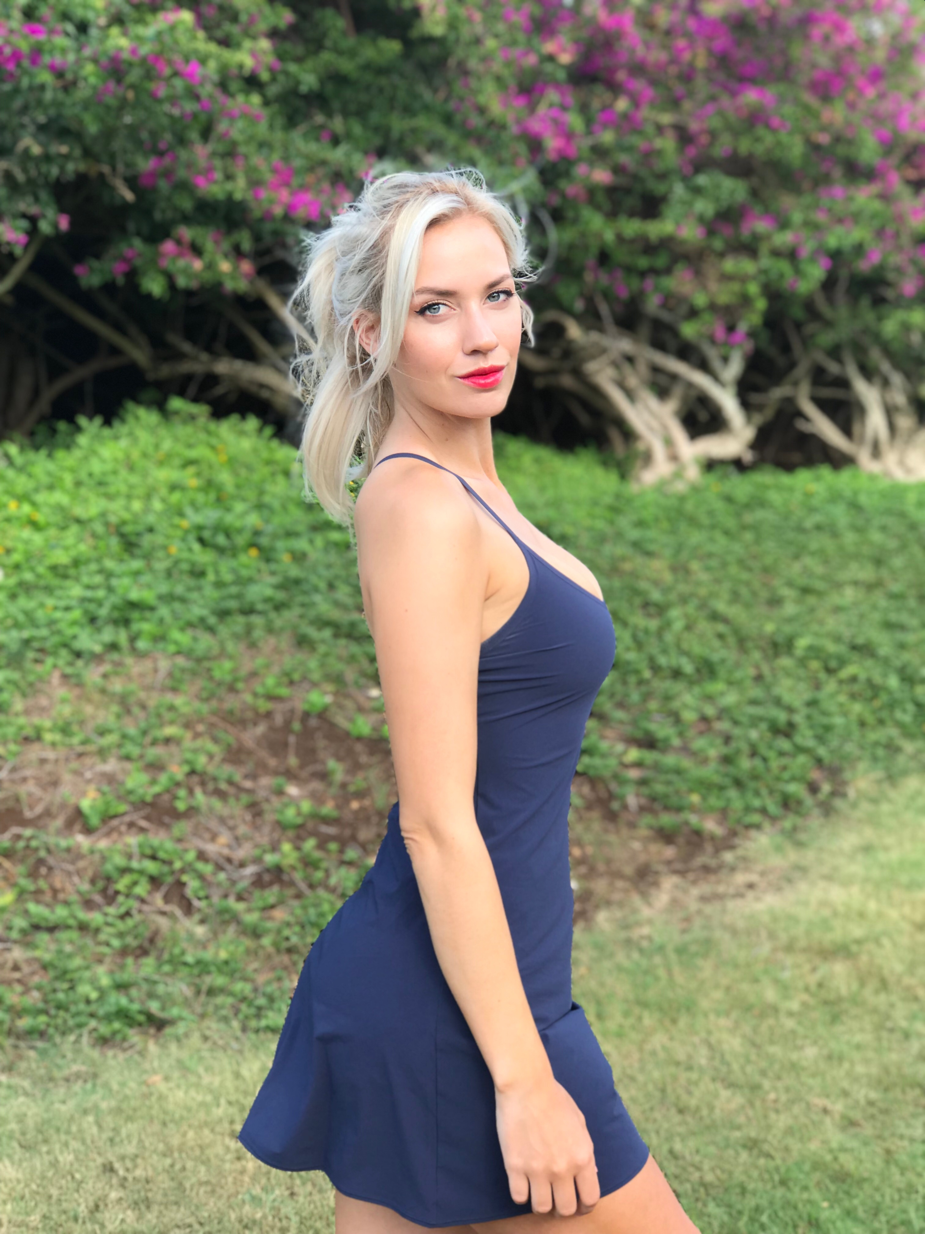 Golfer and Social Media Personality Paige Spiranac